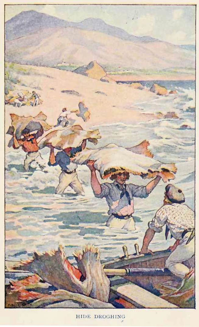 Illustration of Hide Droughing in 1830s Mexican Alta California, part of the California Hide Trade. From the 1911 edition of the 1840 book "Two Years Before the Mast" , written by Richard Henry Dana.